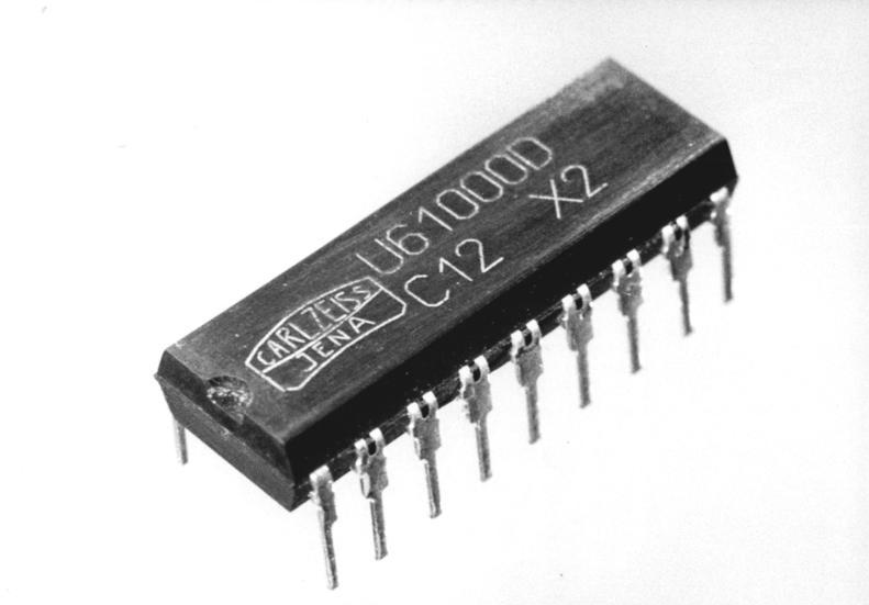 First 1 MBit DRAM Chip U61000D (1024k x 1 Bit) made in GDR